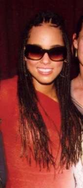 Alicia Keys (cropped)